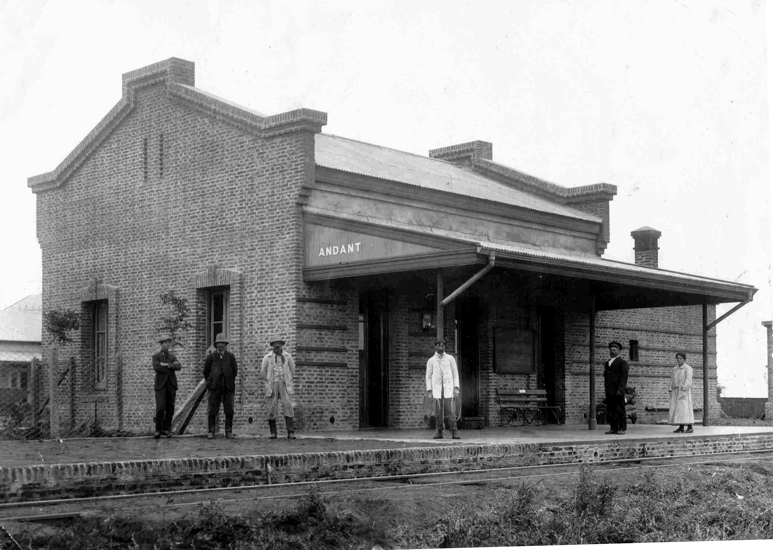 Andant train station, part of Buenos Aires Midland Railway.